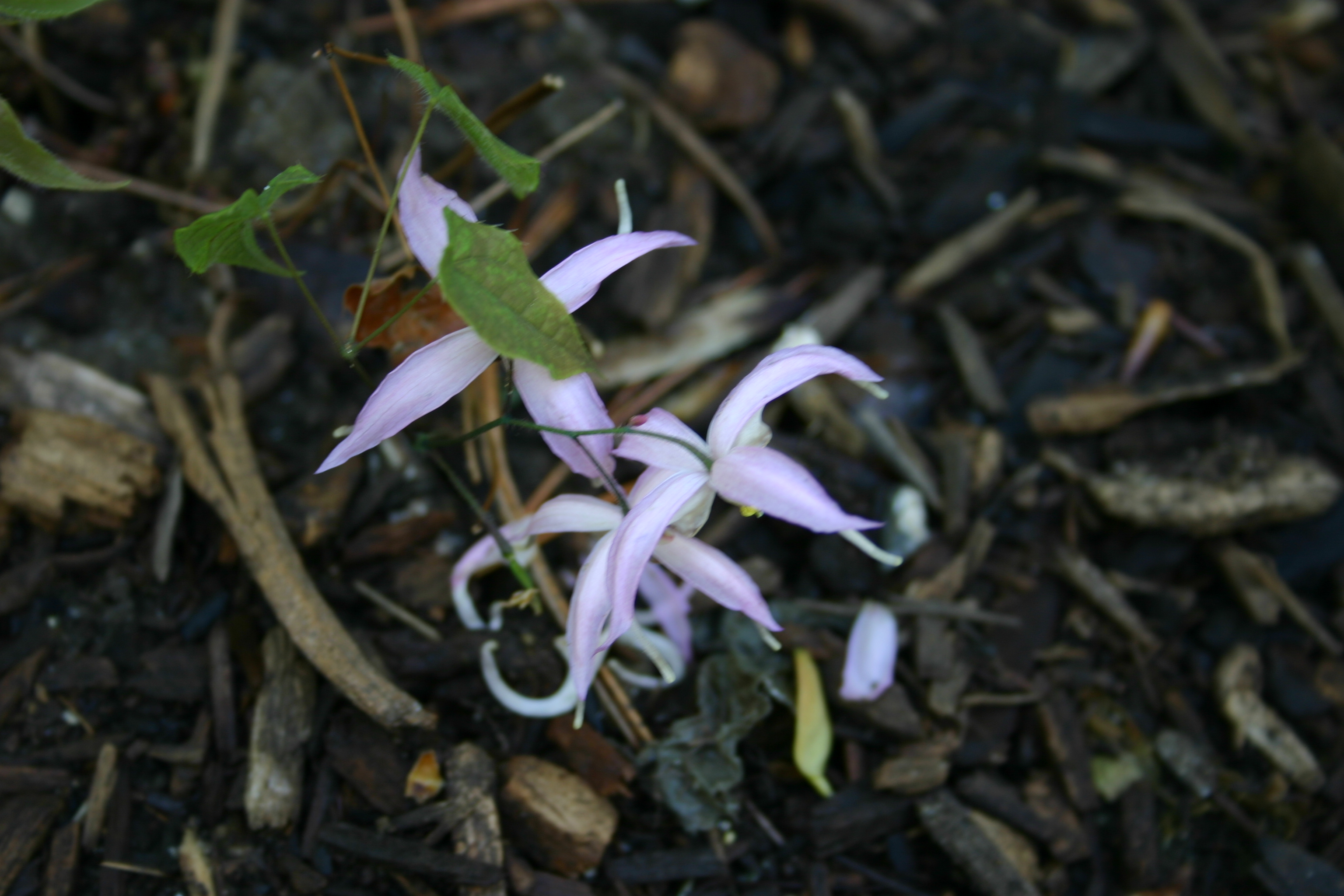 Flowers on Epimedium leptorhizum